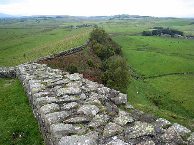 A well-preserved section of Hadrian's Wall Hadrian's Wall Hadrians_Wall between Cawfields Quarry and Caw Gap. Adjacent to Hadrians Wall National Trail which runs 84 miles from Bowness-on-Solway to Wallsend. Cawfields Farm can be seen in the middle distance.